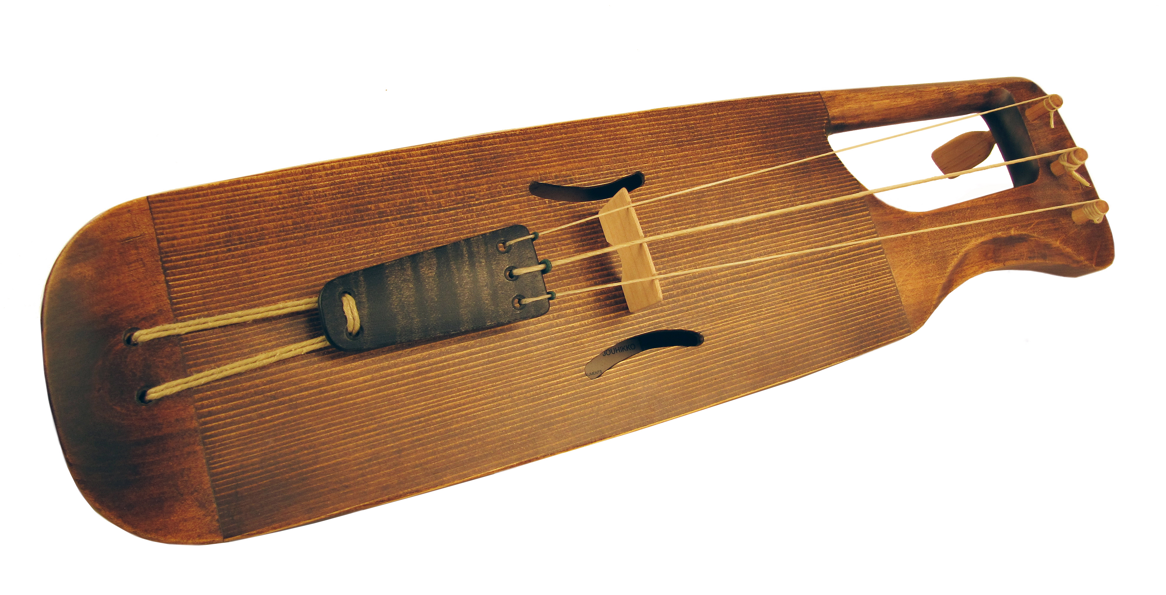 Three string jouhikantele (jouhikko, engl. Bowed Lyre) from Russian Karelia. Made by Master Luthier Rauno Nieminen.